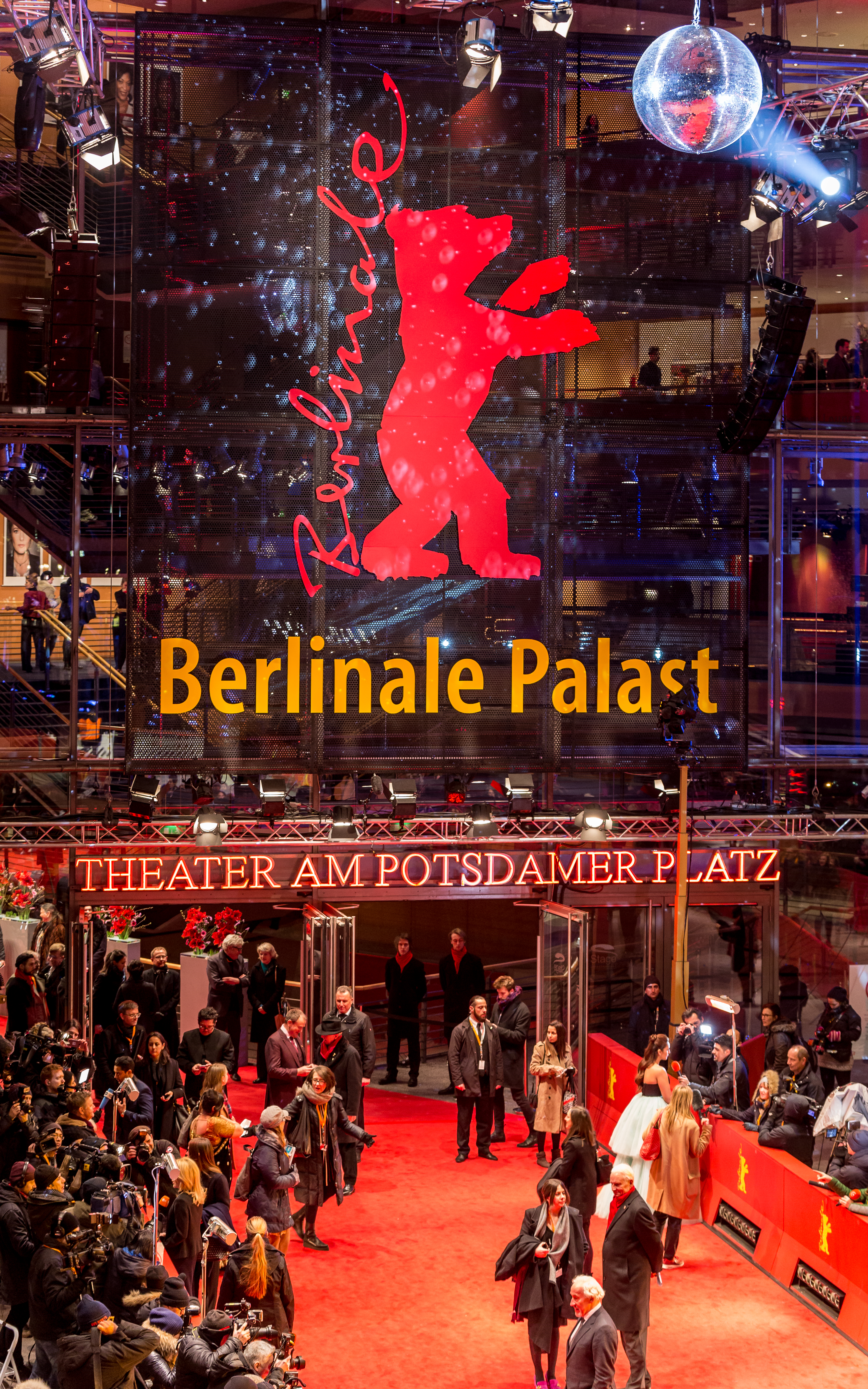 at the berlinale premier of Viceroy's House